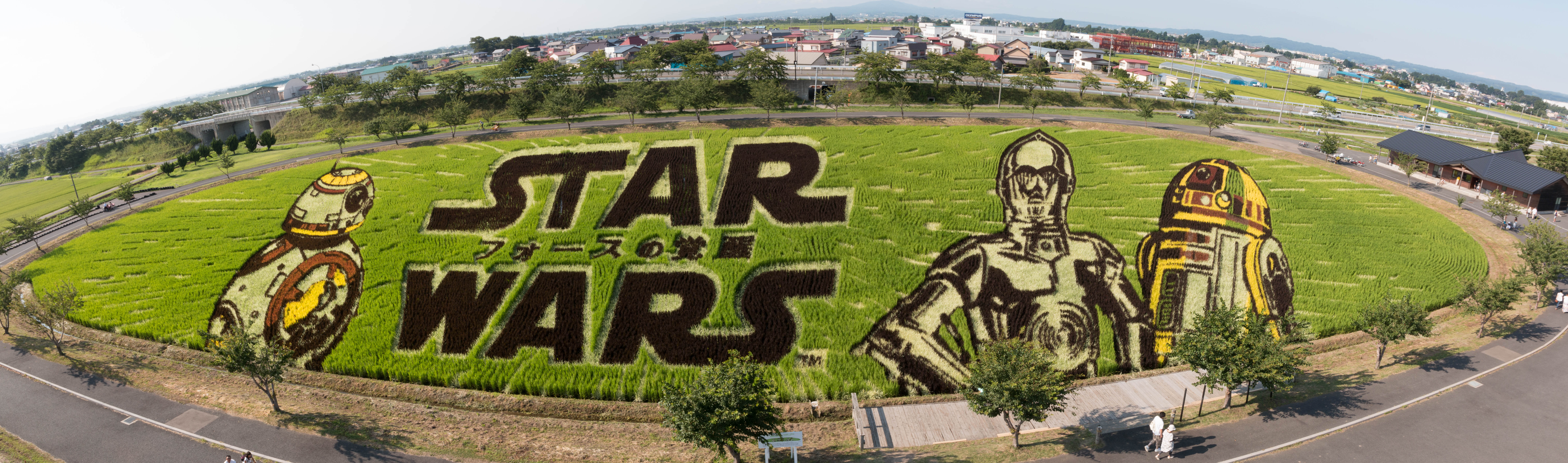 Japan: tambo art in Inakadate (Aomori prefecture).